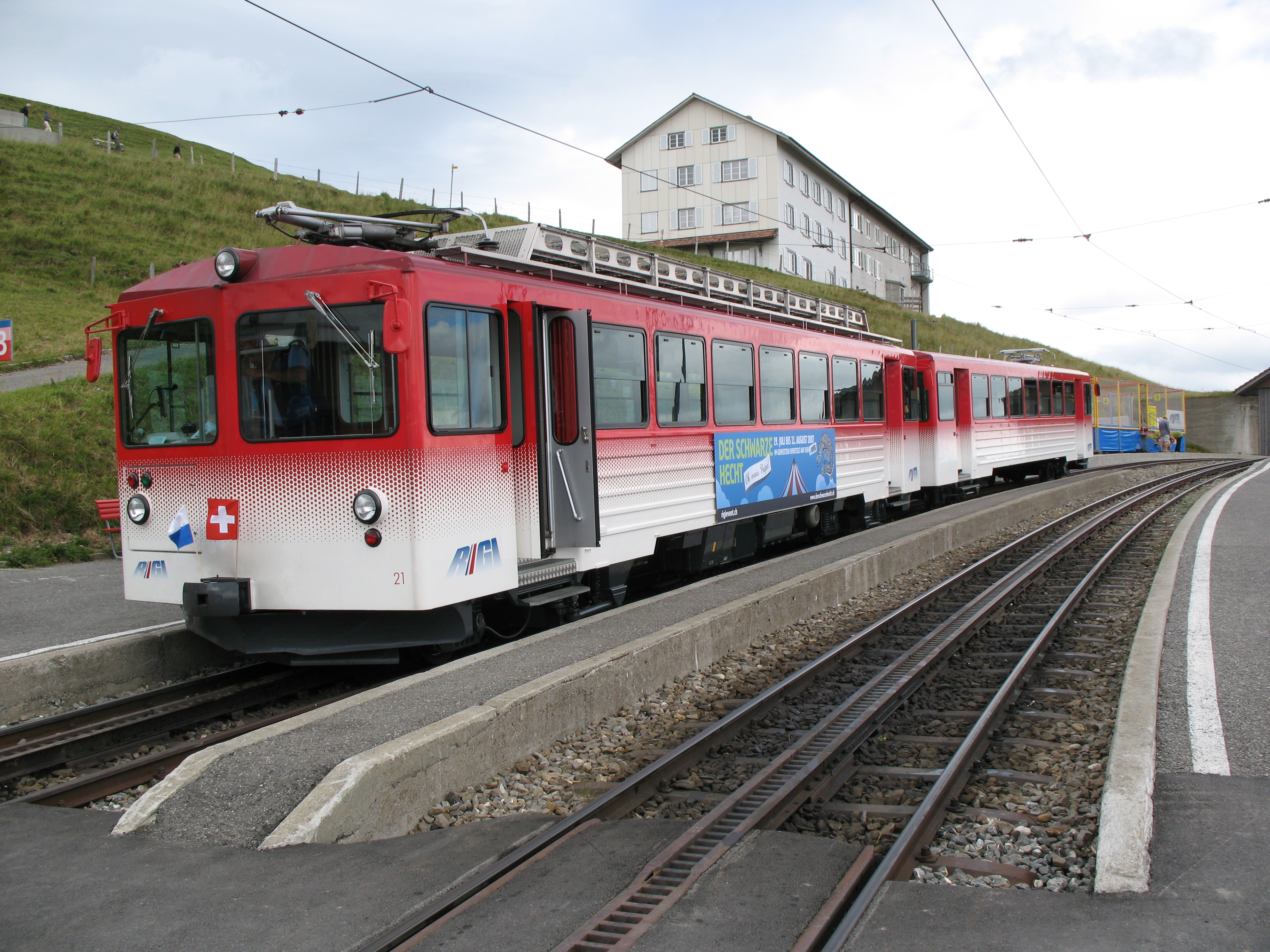 RB BDhe 2/4, Rigi Kulm, Switzerland